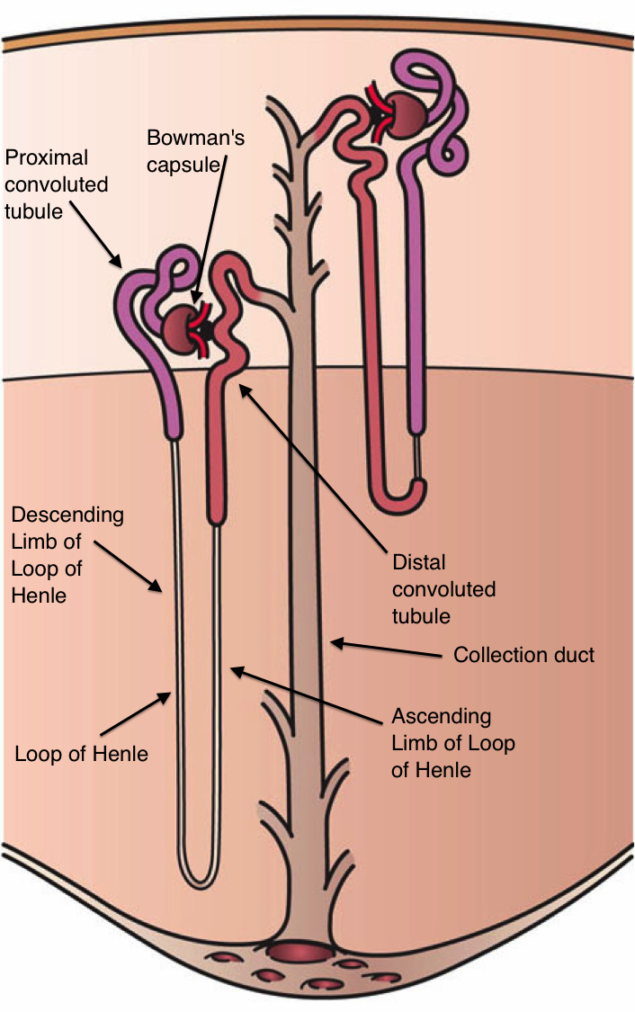 This is an image of a kidney nephron and its structure.